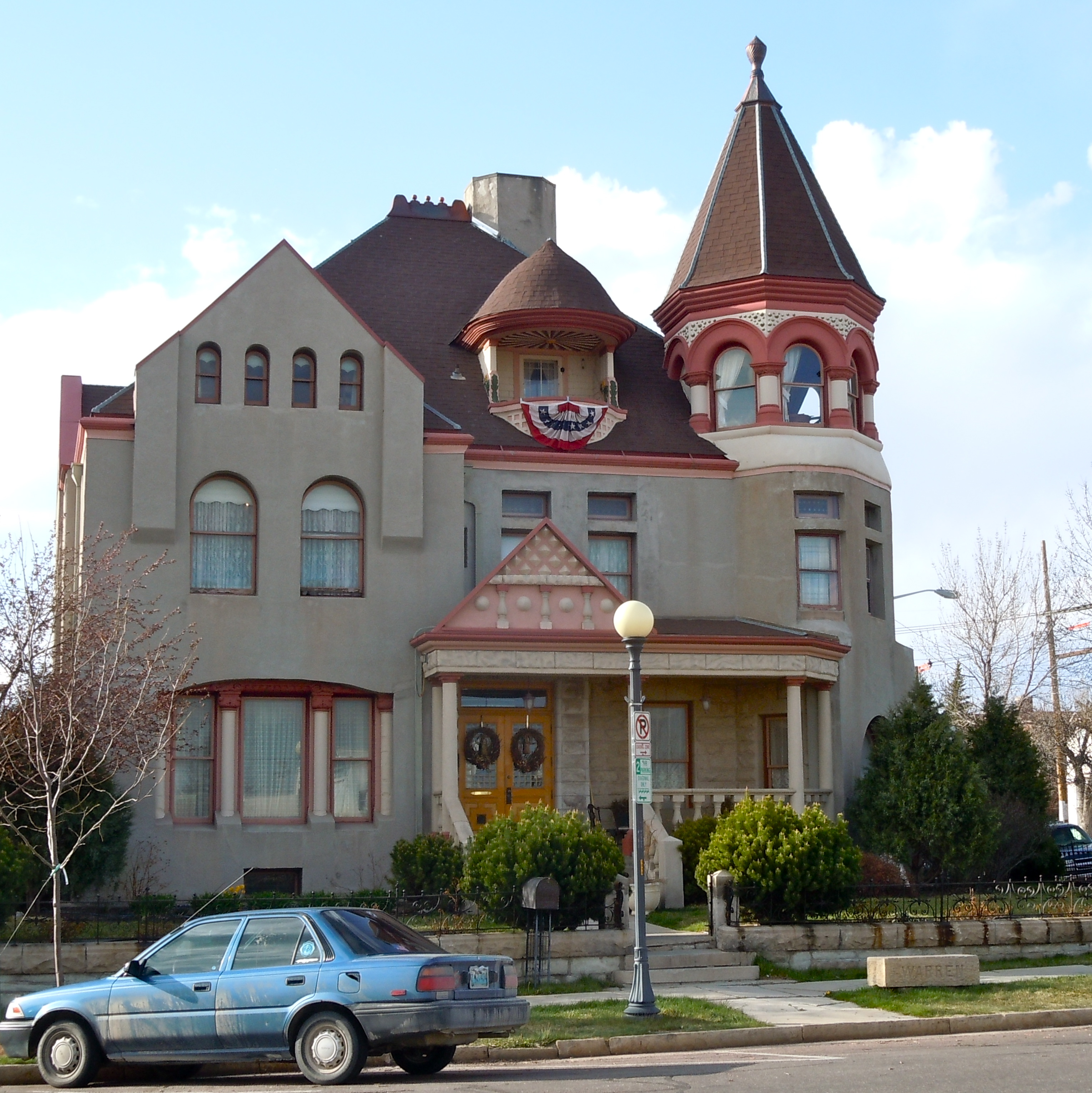 Nagle-Warren Mansion on the NRHP since July 12, 1976. At 222 E. 17th St., Cheyenne, Wyoming